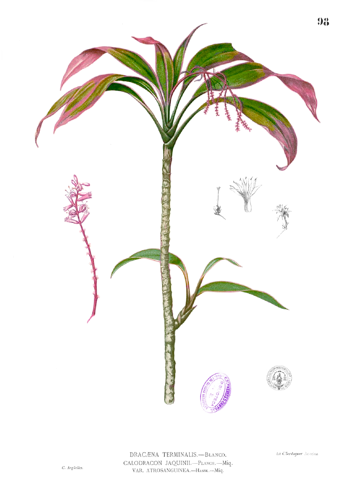 Plate from book